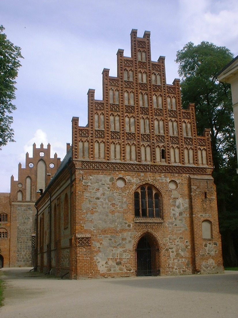 Abbey in Heiligengrabe in Brandenburg, Germany